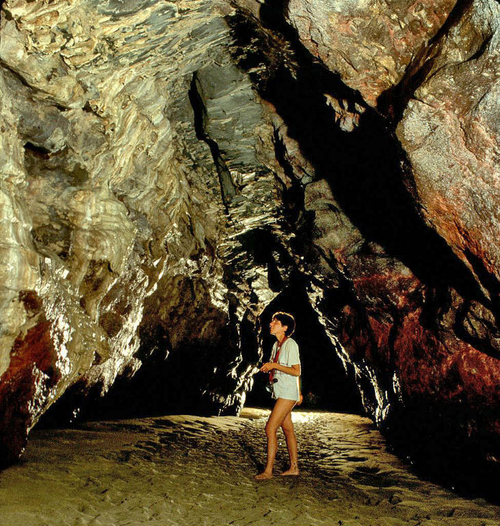 A sea cave on Kauai showing formation along a dike Photo by Dave Bunnell